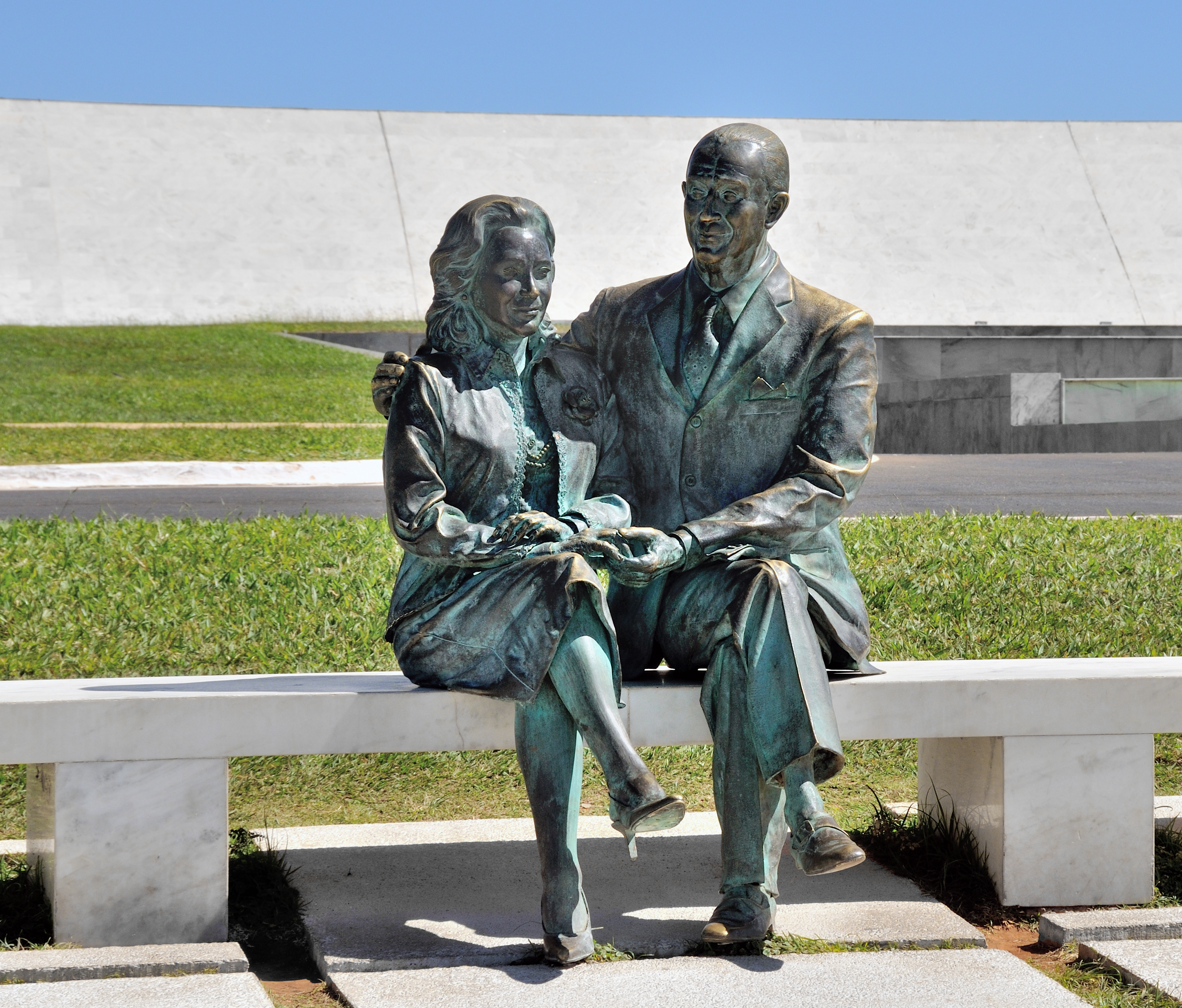 Bronze sculpture showing Juscelino Kubitschek and his wife in front of the J Kubitschek Memorial in Brasilia, Brazil. Sculptor: Roberto Sá.